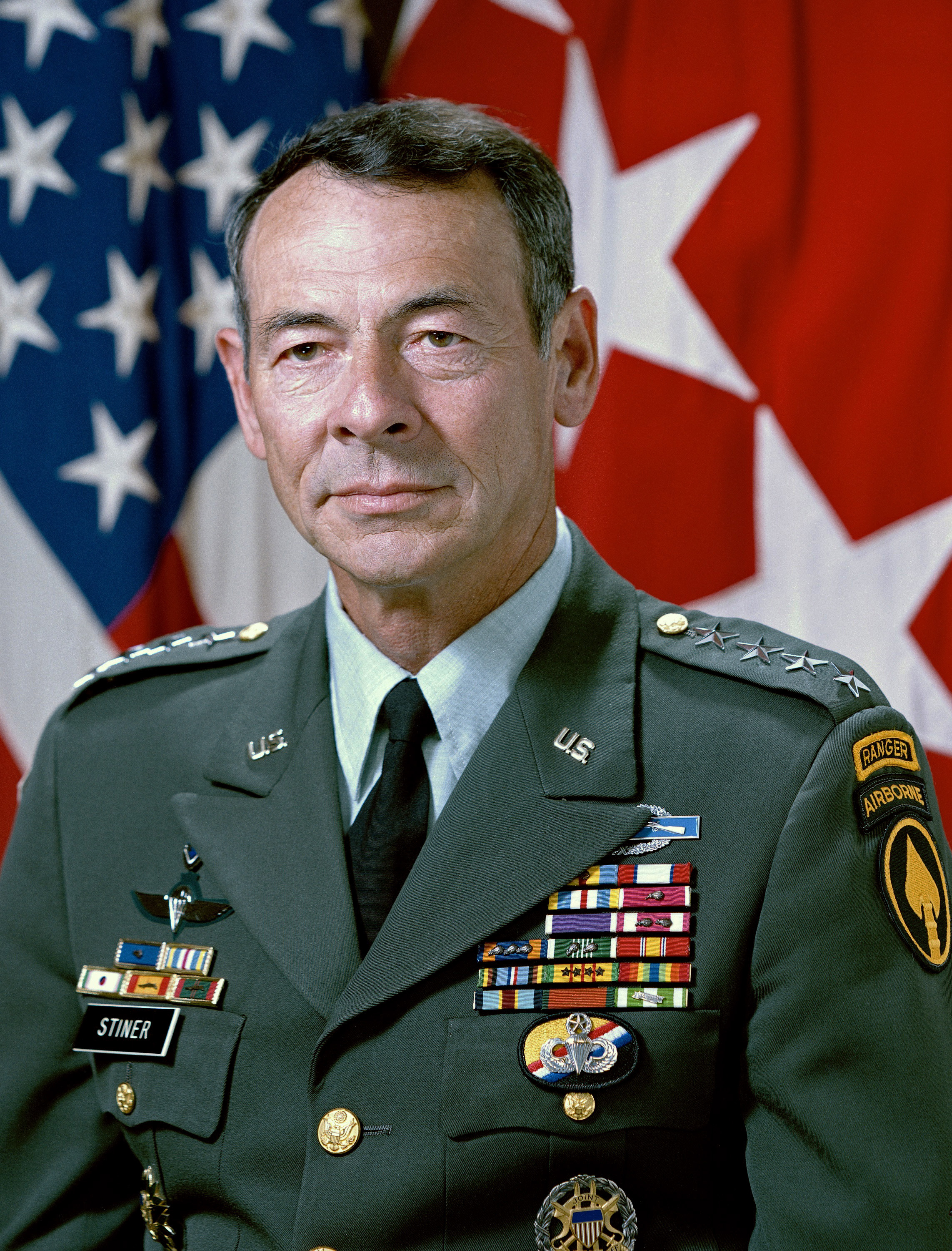 US Army General Carl W. Stiner (retired)